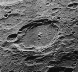 Oblique view of Fizeau, on the far side of the moon, facing west.